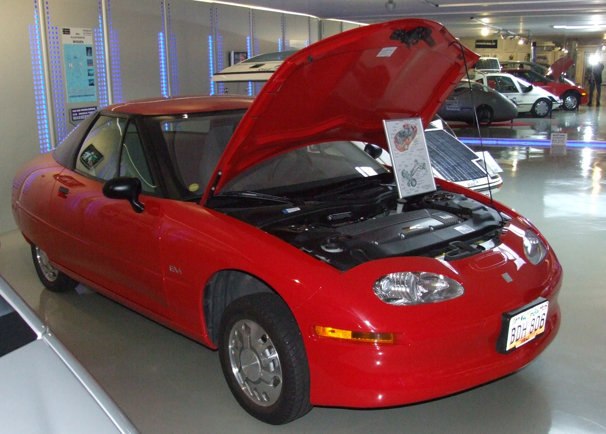 General Motors EV1, picture taken at Museum Autovision, Altlußheim, Germany, one of forty existing EV1s